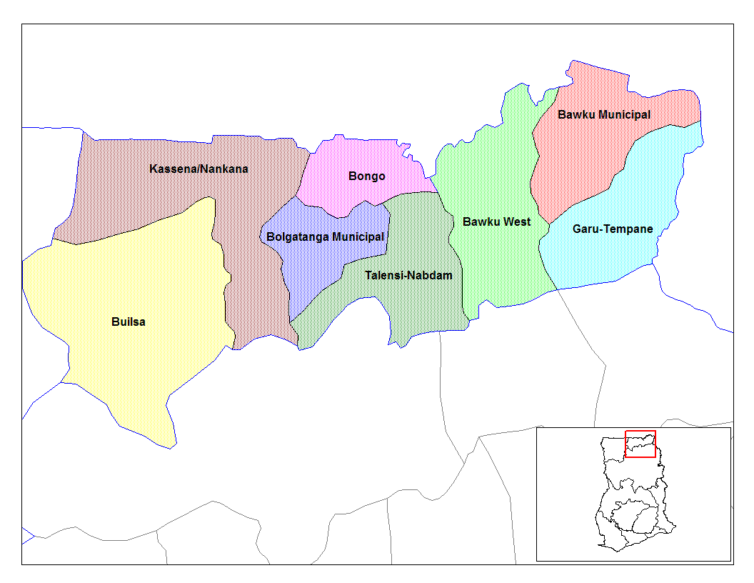 Map of the districts of the Upper East region of Ghana. Created by Rarelibra for public domain use. Created using MapInfo Professional v7.5 and various mapping resources.